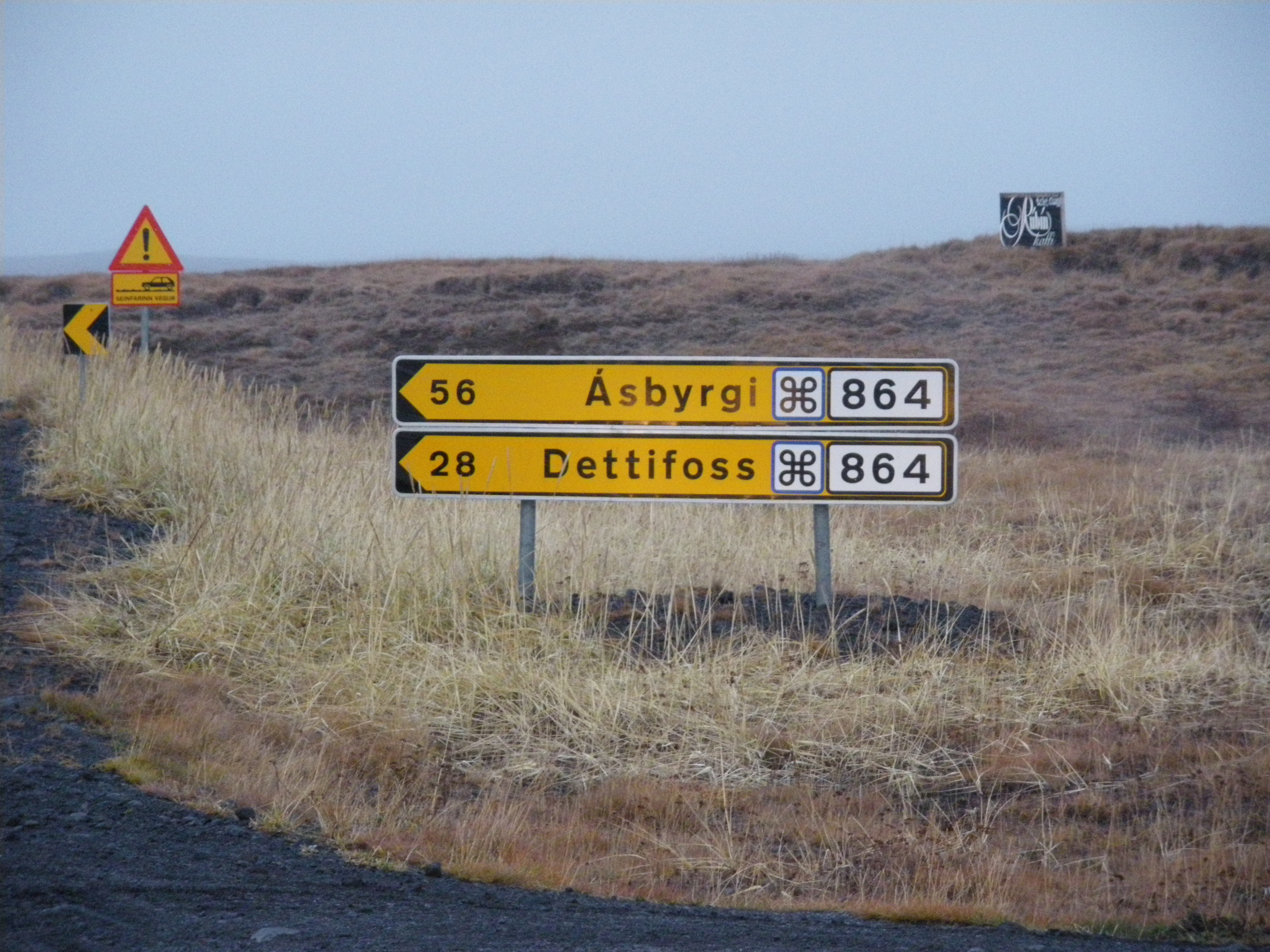 Road 864 in Iceland. Copyright (c) 2010 Guillaume Fiévet